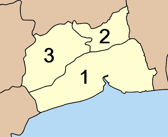 Map of Samut Sakhon province, Thailand, with the districts numbered. Mueang Samut Sakhon (อำเภอเมืองสมุทรสาคร) Krathum Baen (อำเภอกระทุ่มแบน) Ban Phaeo (อำเภอบ้านแพ้ว)